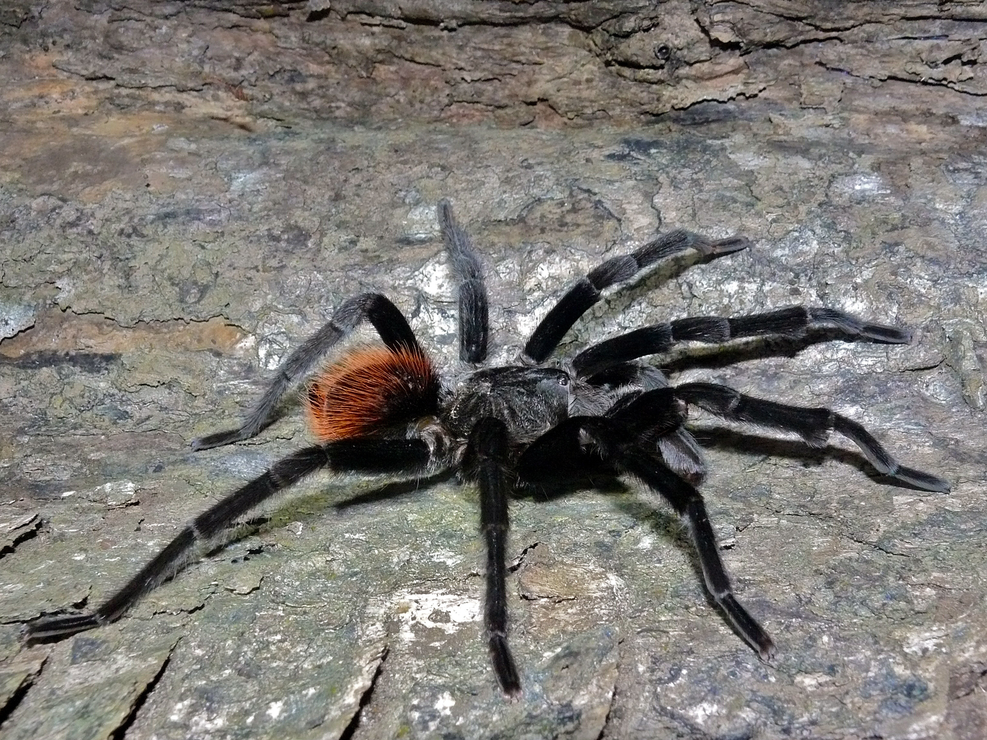 Black Rock Lodge, San Ignacio, BELIZE